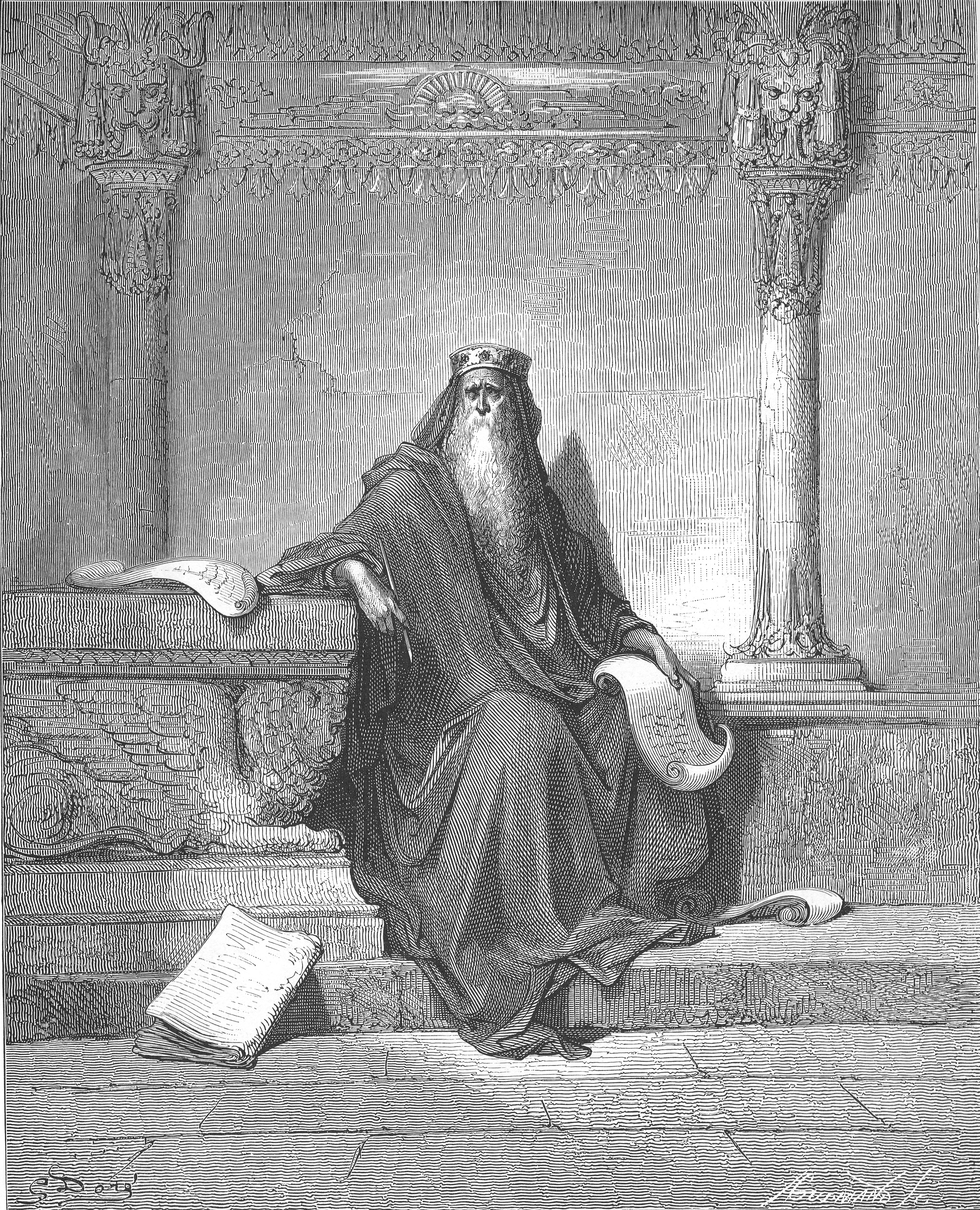 King Solomon in Old Age (1Kings 4:29-34)